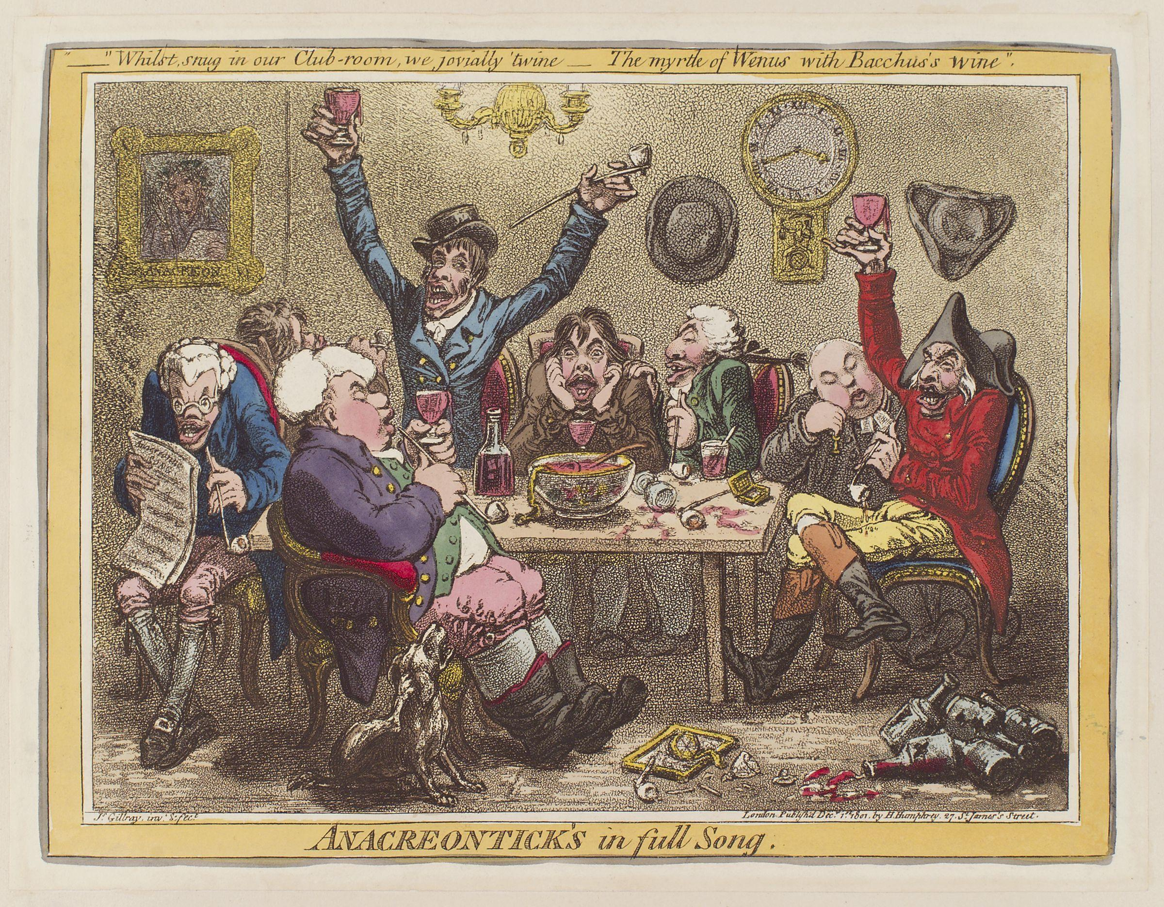 Anacreontick's in full song, by James Gillray (died 1815), published 1801. All images in this batch have been confirmed as author died before 1939 according to the official death date listed by the NPG.